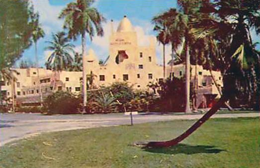 1954 - the Miami Sanitorium on Curtiss Parkway in Miami Springs. Formerly the Country Club hotel, built by Glenn Curtiss 1928.